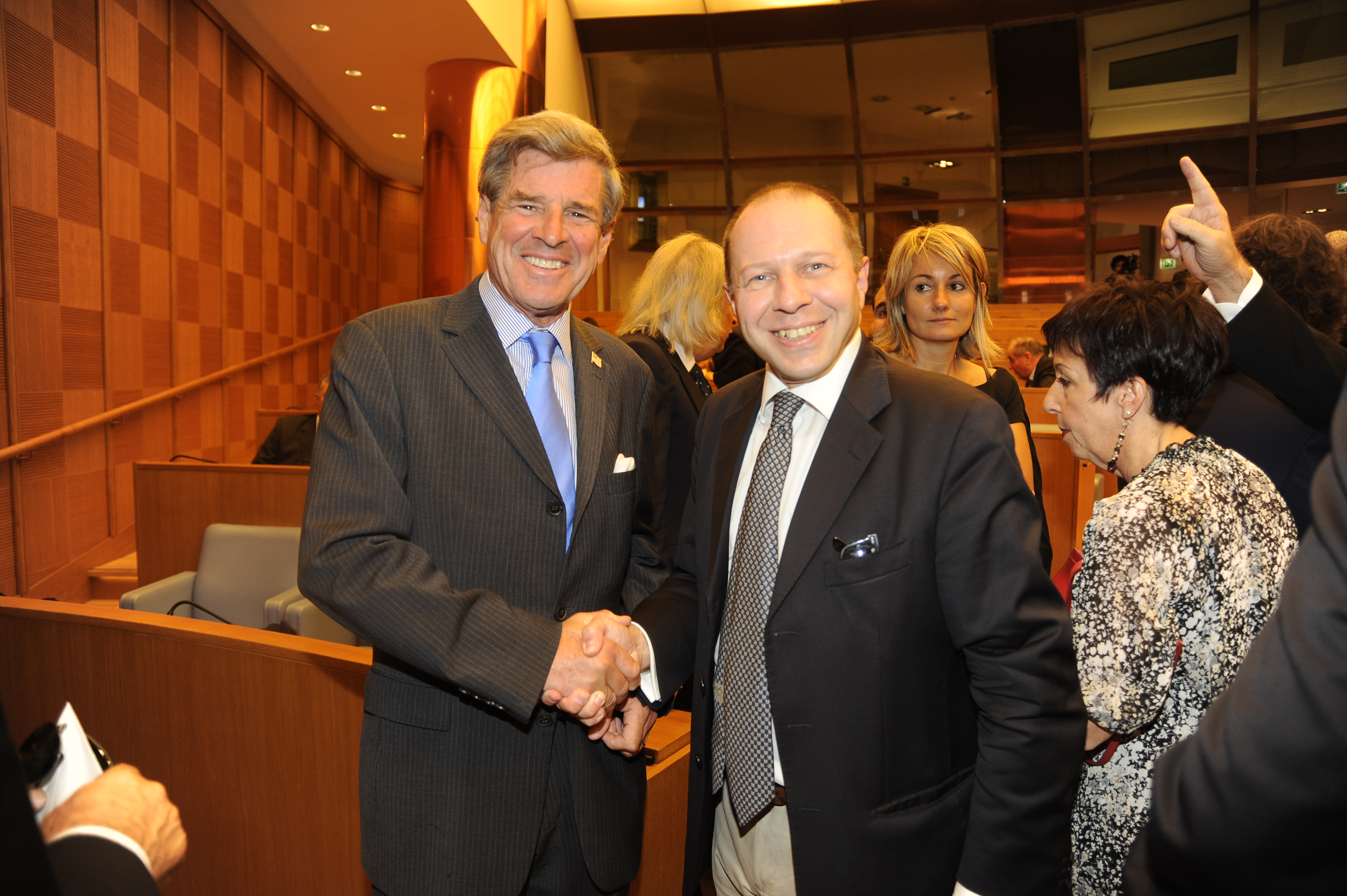 US GOVERNOR OF IRAQ PAUL BREMER; SECRETARY GENERALE ITALY-USA FOUNDATION CORRADO MARIA DACLON